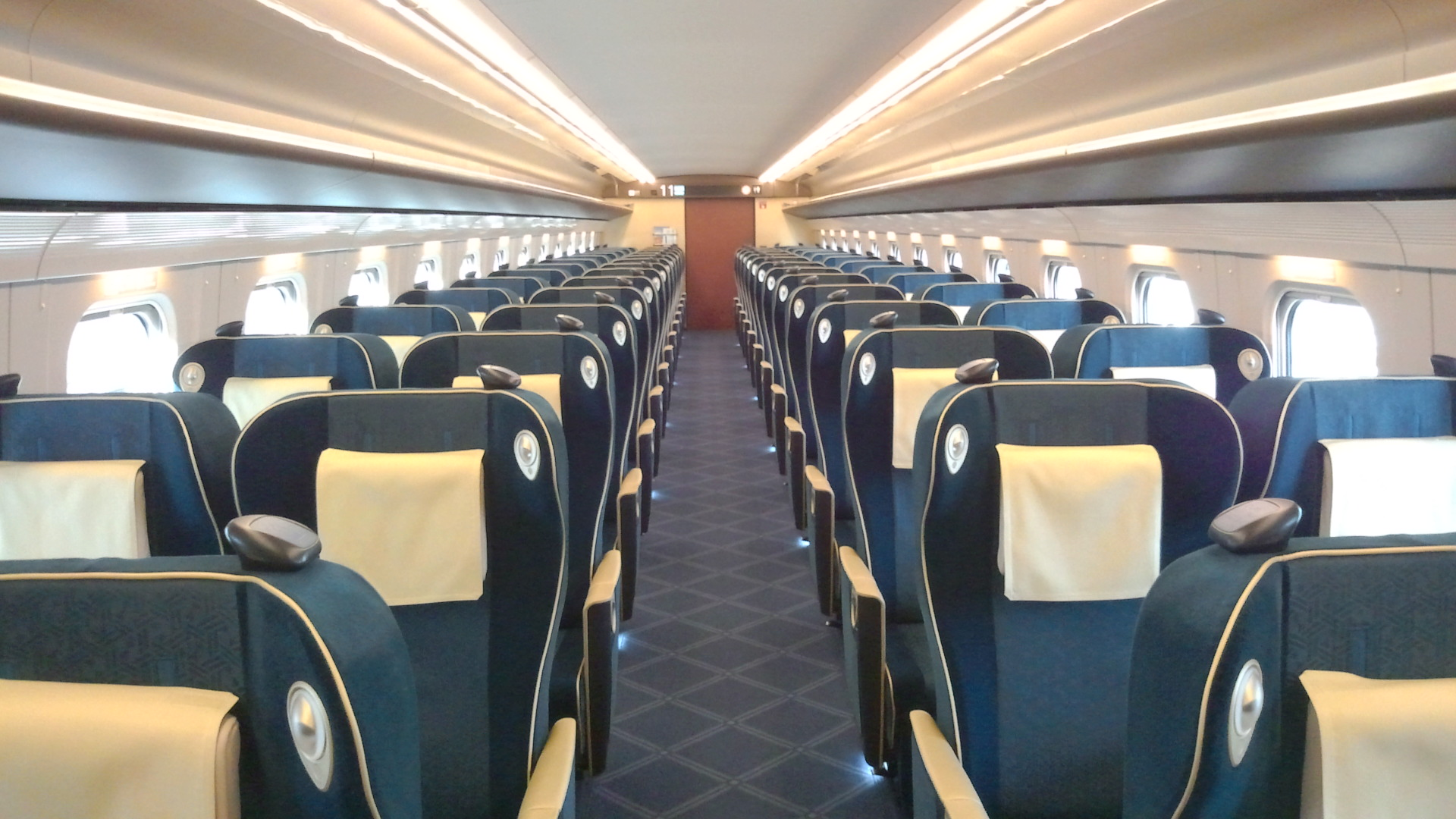 Interior of a JR East E7 series shinkansen Green (first-class) car (car 11)